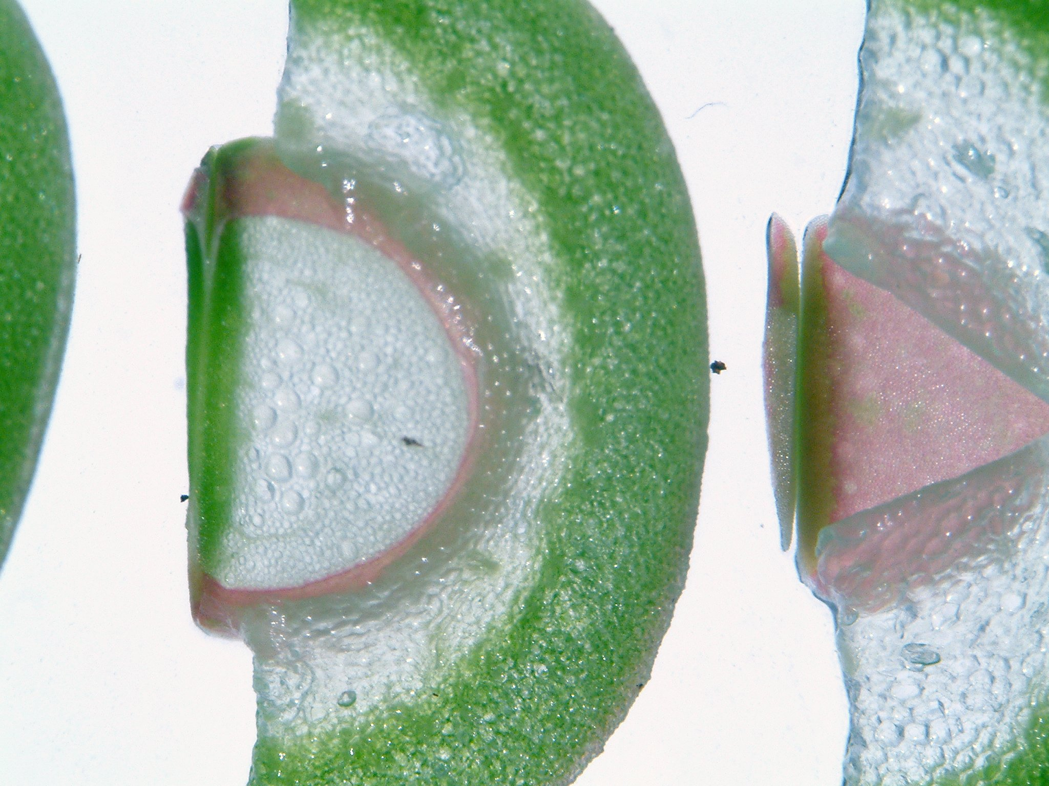 The Lithops lobes derived from ordinary plant leaves: The top side transmits light and is hard coated for protection, the bottom side has microscopic apertures (stomata) for gas exchange. This is the same with Lithops, besides the "leaves" have got a huge water storage layer within. It is fully transparent, and photosynthesis is performed by the green cells near the sidewalls, which are the bottom side of the "leaf". Lithops are CAM-Plants, that means that they perform photosynthesis and gas exchange differently scheduled, to keep the stomata closed at daytime to reduce transpiration. The Lithops top side is called window due to its explicit transparency. Perfect: A red tinted window! On the one hand it transmits red light for photosynthesis and on the other it prevents the plant from looking green, so plant-eating animals won't find it. Inside the plant body, there is a next pair of lobes waiting to take over next year. The outer lobes will nourish the new lobes during their growth and are sacrificed in spring. So Lithops never afford more than two lobes, except when splitting up into two plants. When watered all time, they try to behave like "normal" plants and build up one pair of leaves after the other. This quickly causes heavy ruptures because their anatomy does not allow for that.